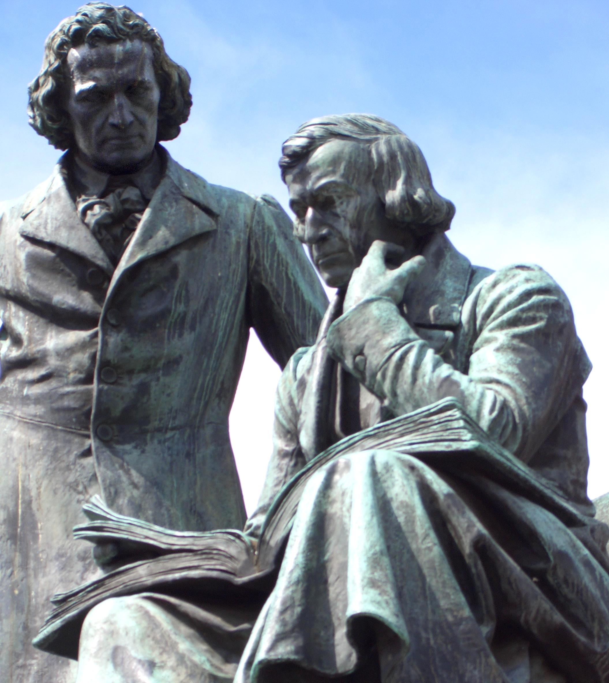 Grimm Brothers Monument at Hanau (Germany), sculpted by Syrius Eberle